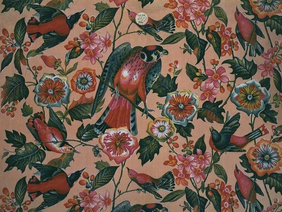 Furnishing fabric produced in Lancashire in 1830s. Roller printed cotton. The design is closely based on several plates from The Birds of America by John James Audubon. Now in Victoria & Albert museum.